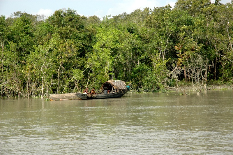 Boat in the Sundarbans of BangladeshI am a tourist attraction for the locals